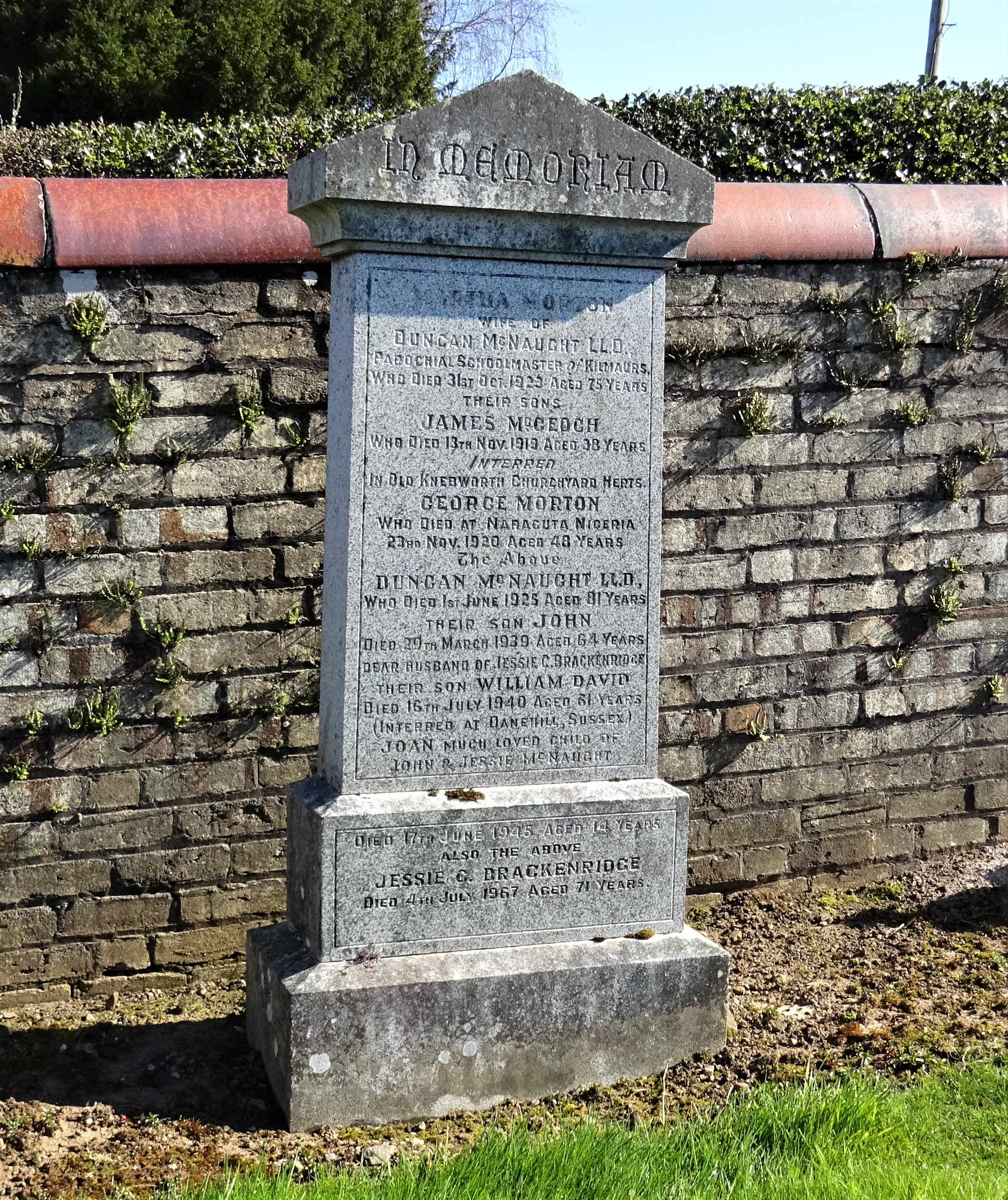 The Duncan McNaught and family memorial, Kilmaurs, East Ayrshire. The local teacher and an author, local historian and Robert Burns expert.